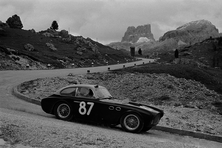 Roberto Bonomi in the 1952 Ferrari 250 S Vignale Berlinetta s/n 0156ET at Coppa delle Dolomiti on 12 July 1953, which he did not finish.[1]